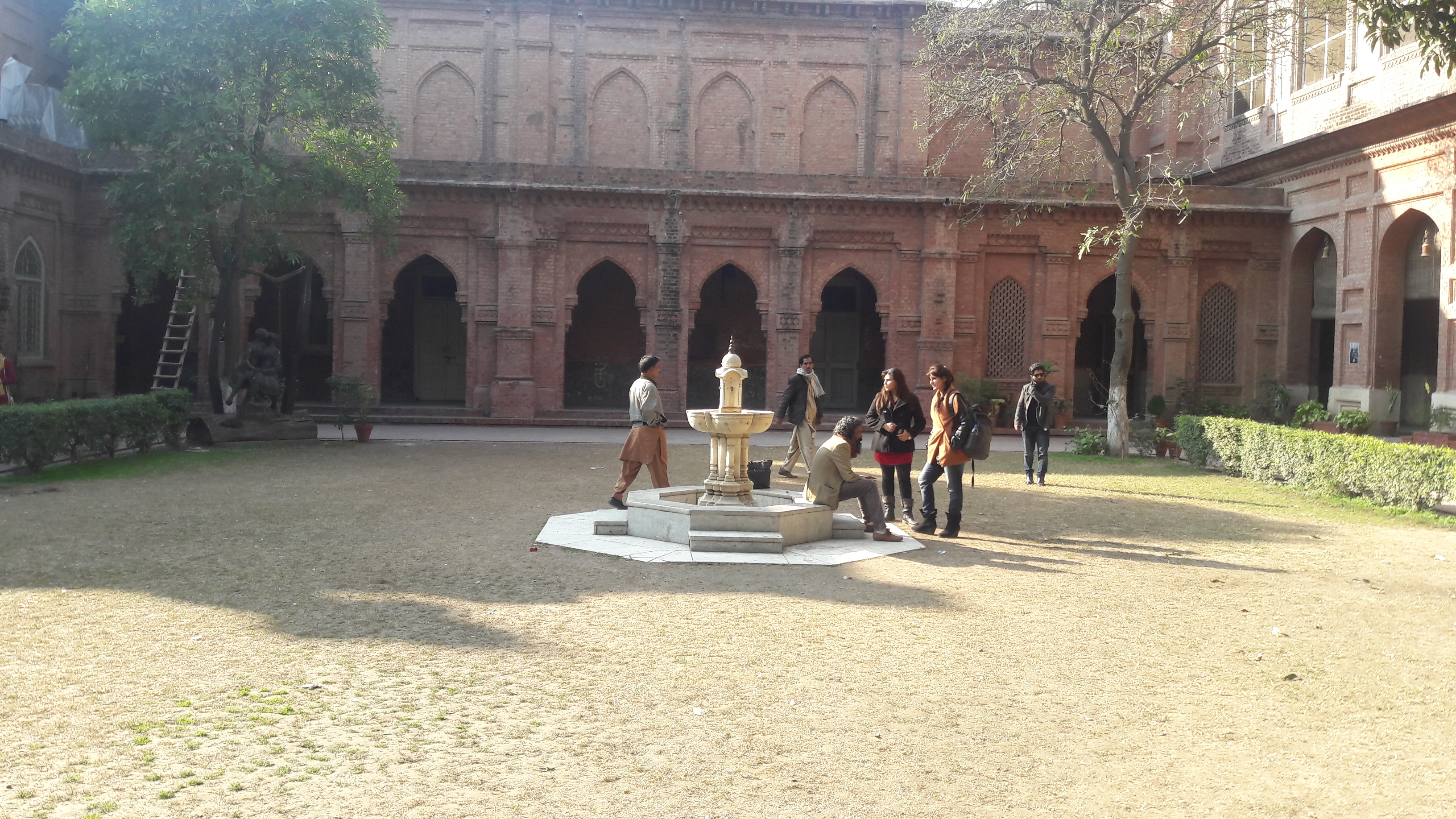 National College of Arts, Lahore